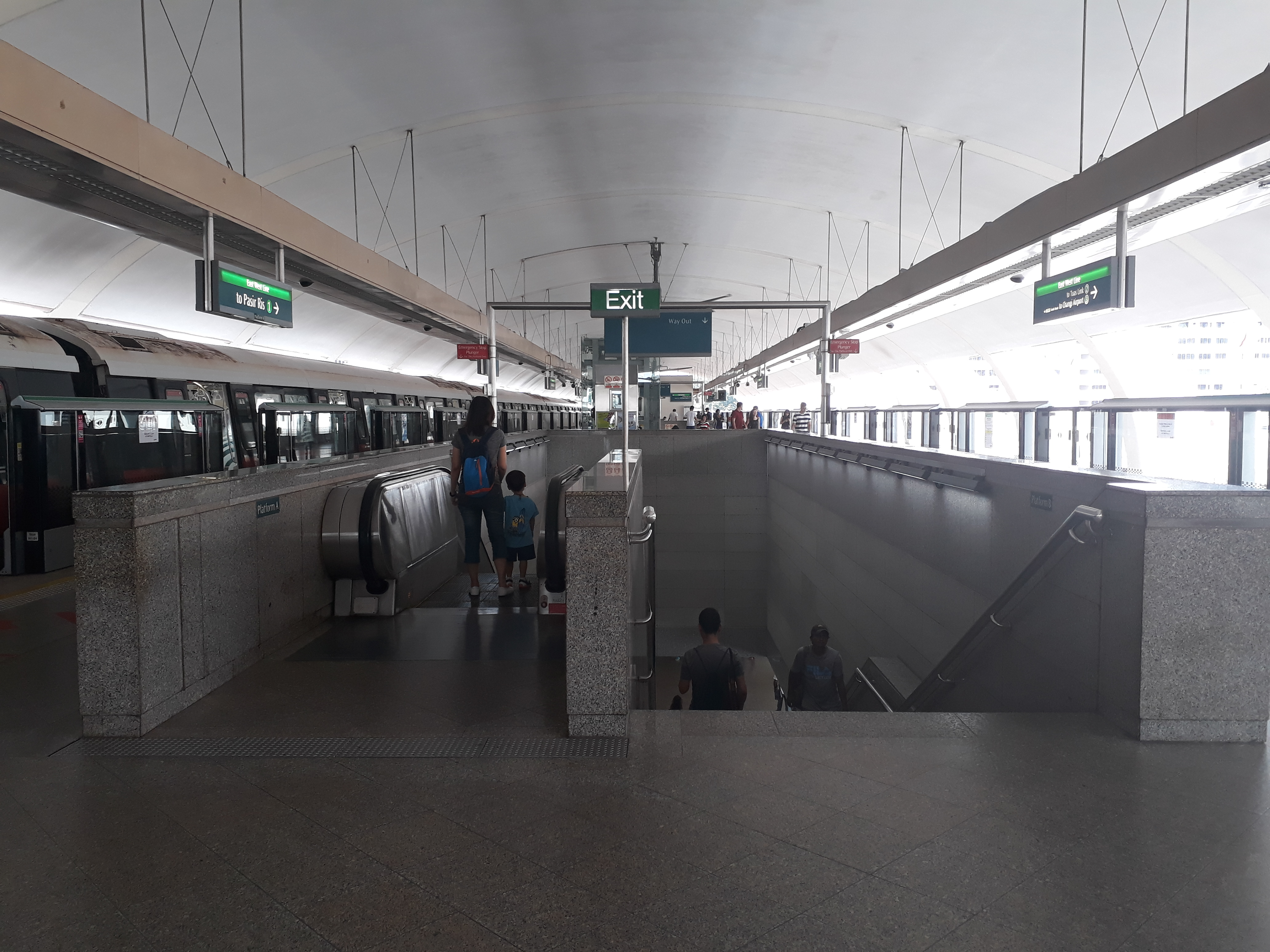 Simei MRT